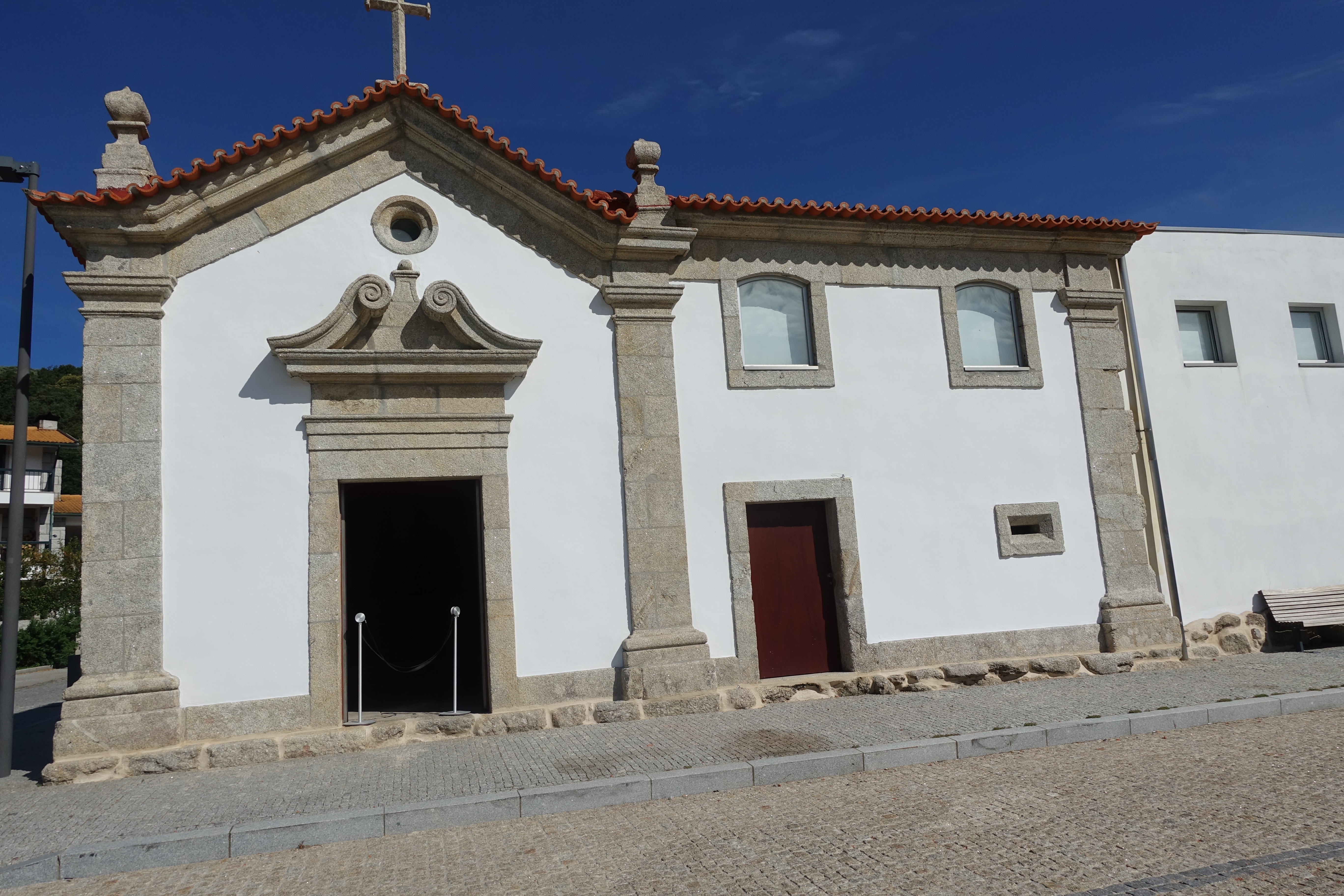 Vila Pouca de Aguiar Portugal